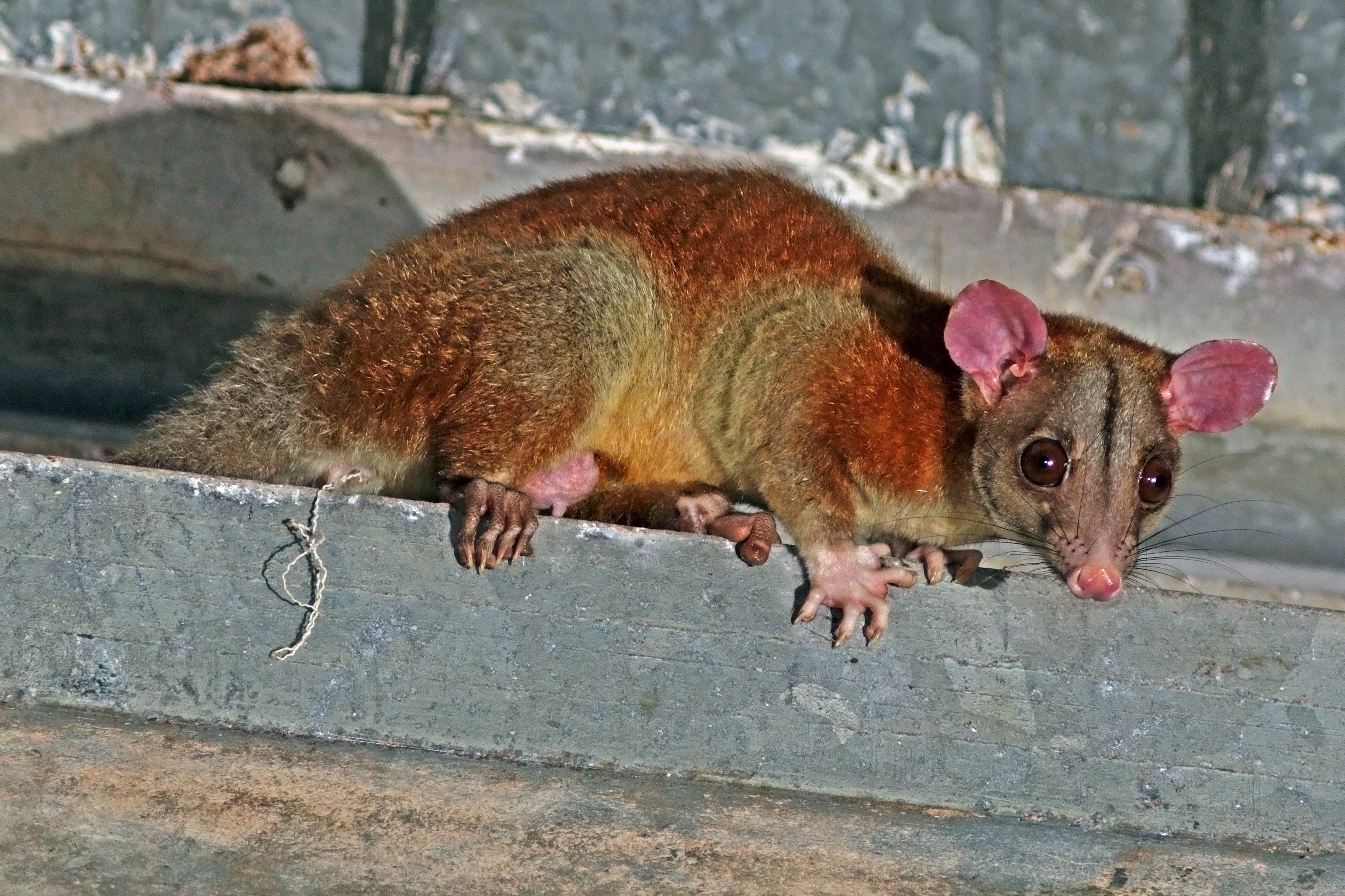 Central American woolly opossum (Caluromys derbianus) male, in Canopy Tower, Panama